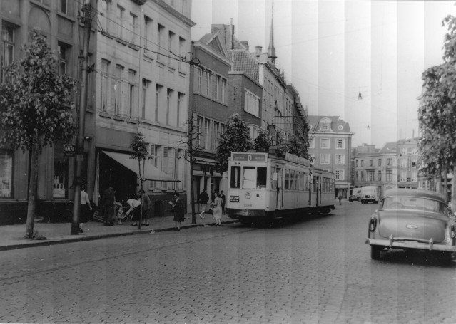 Tramway D in the Rijselsestraat in Courtrai/Kortrijk.